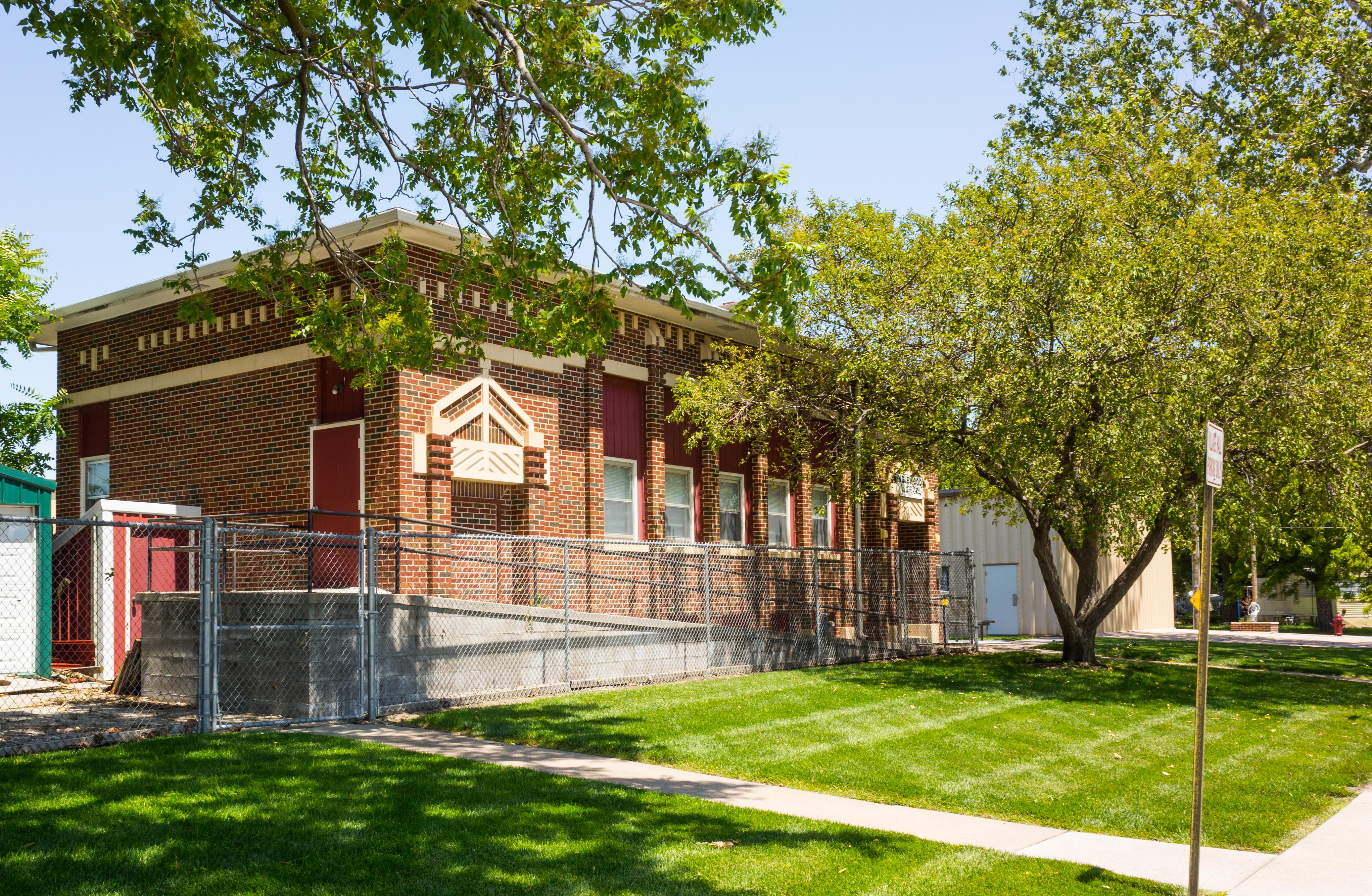 Inglewood Village Hall